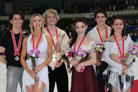 Sinead Kerr / John Kerr (2), Meryl Davis / Charlie White (1), Vanessa Crone / Paul Poirier (3) at the 2009 NHK Trophy.